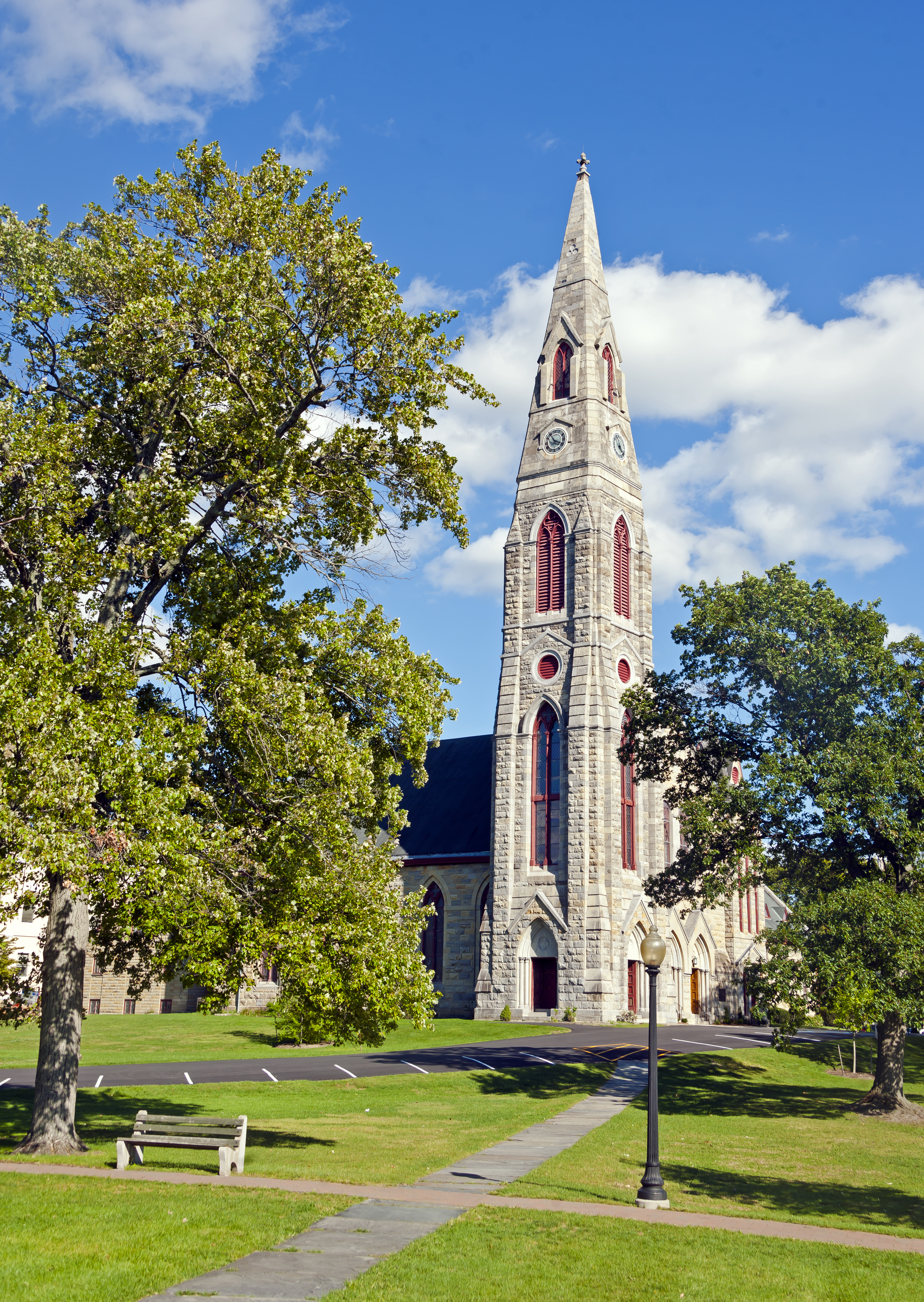 First Presbyterian Church in Goshen, NY, USA, a contributing property to the Church Park Historic District